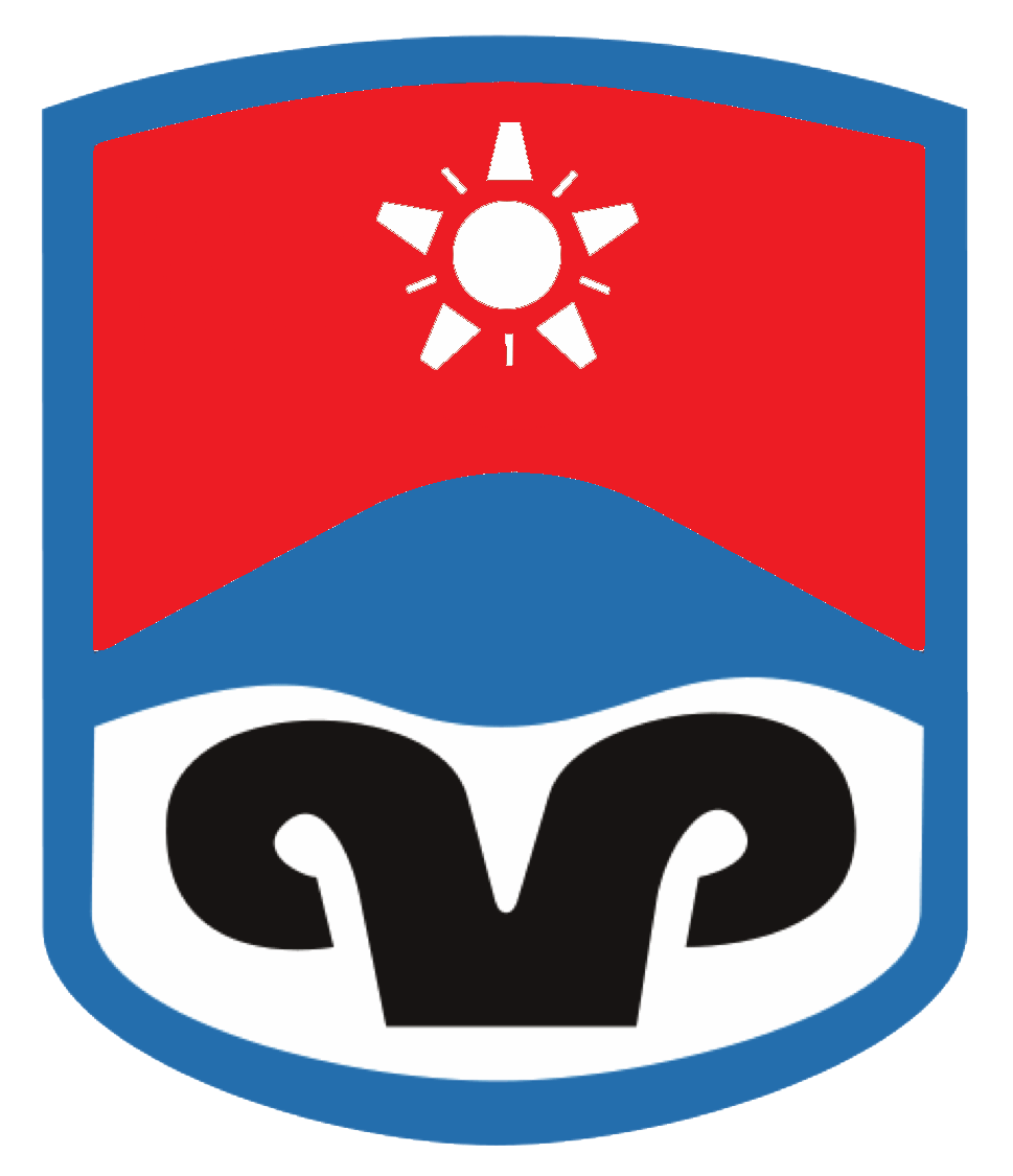 This is the new (recently changed) City of Prijedor's coat of arms / shield as seen at the entrance of the city hall or at the official website